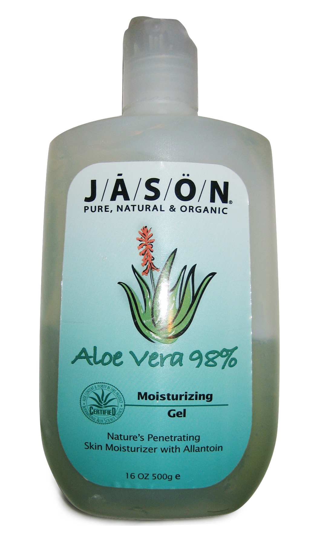 Aloe vera moisturiser